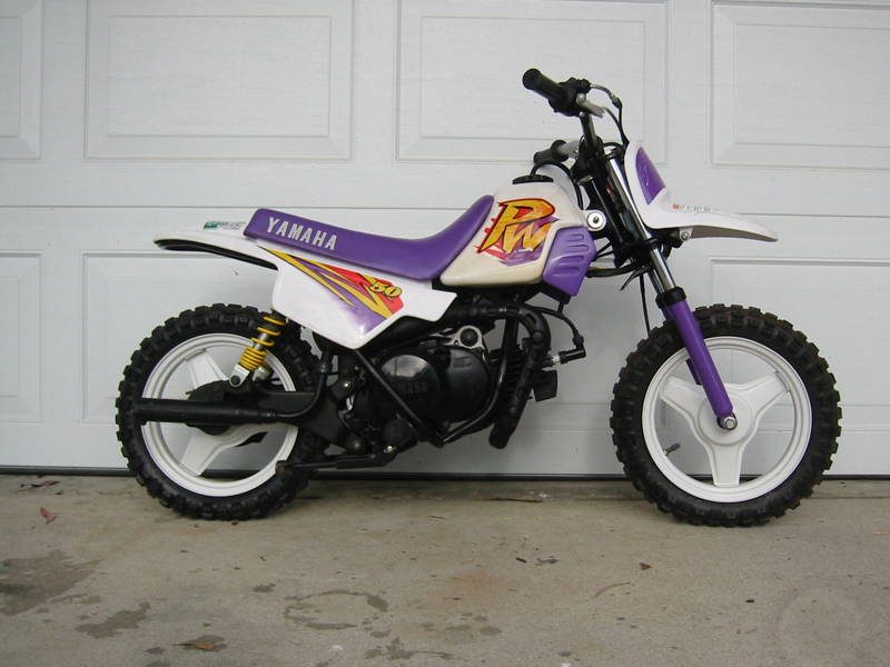 Yamaha PW50 a small kids learner motorcycle.